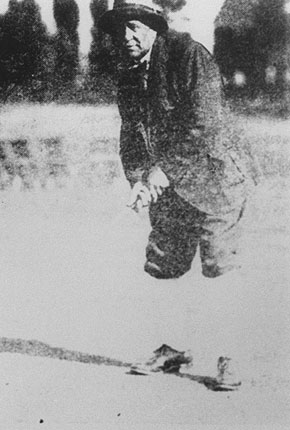 George Lyon during 1904 Summer Olympics